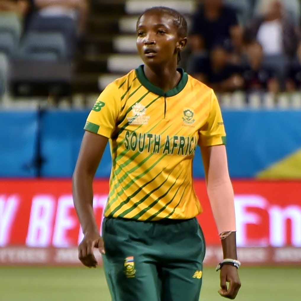 Ayabonga Khaka walking back to her mark while bowling for South Africa against England during their 2020 ICC Women's T20 World Cup match at the WACA Ground in Perth, Australia